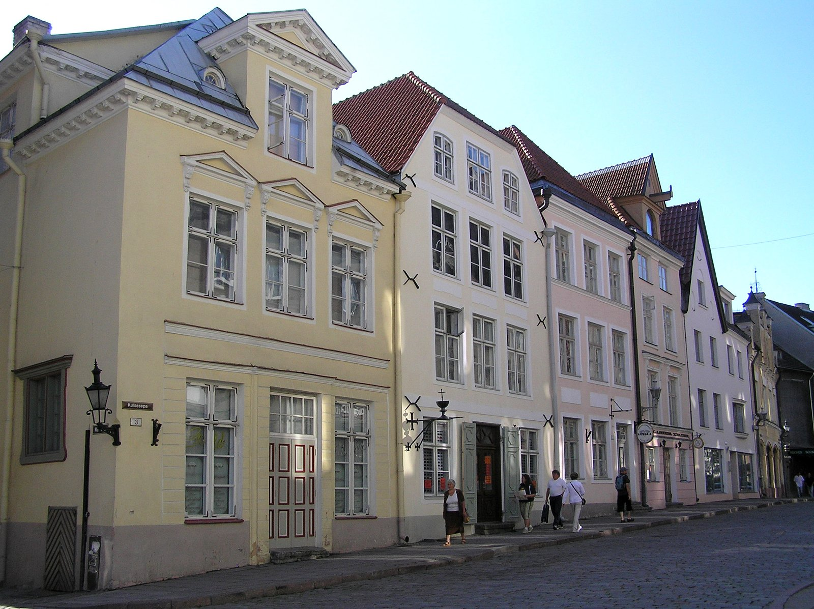 Kullassepa street in Tallinn